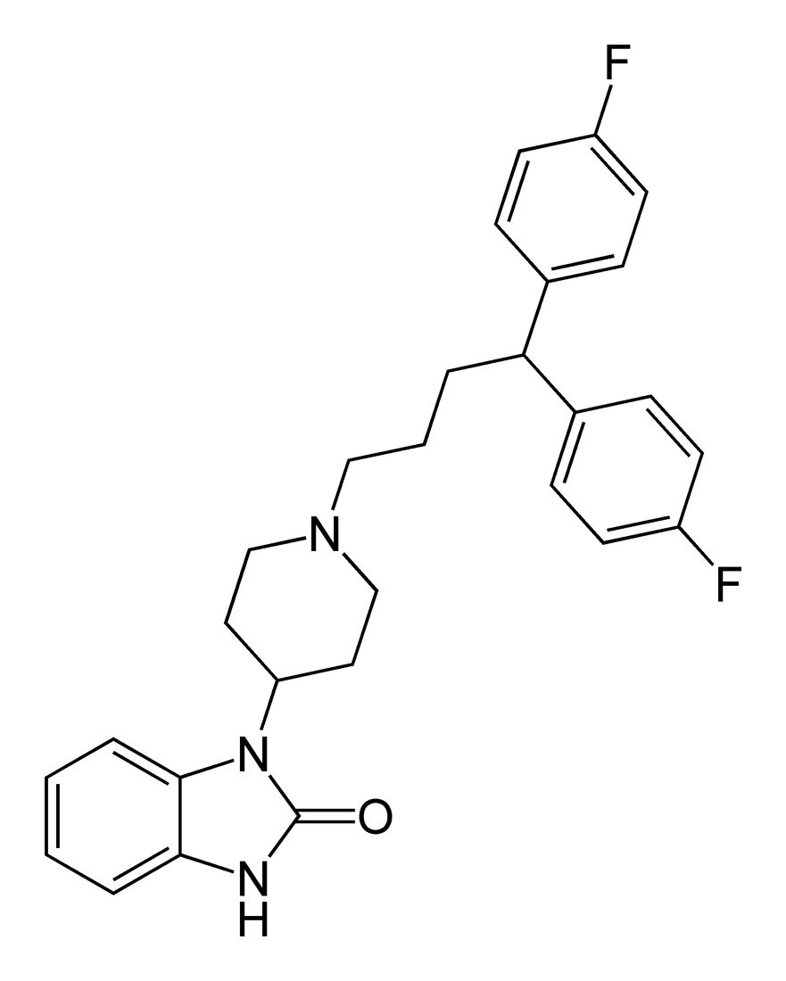 Structure of Pimozide